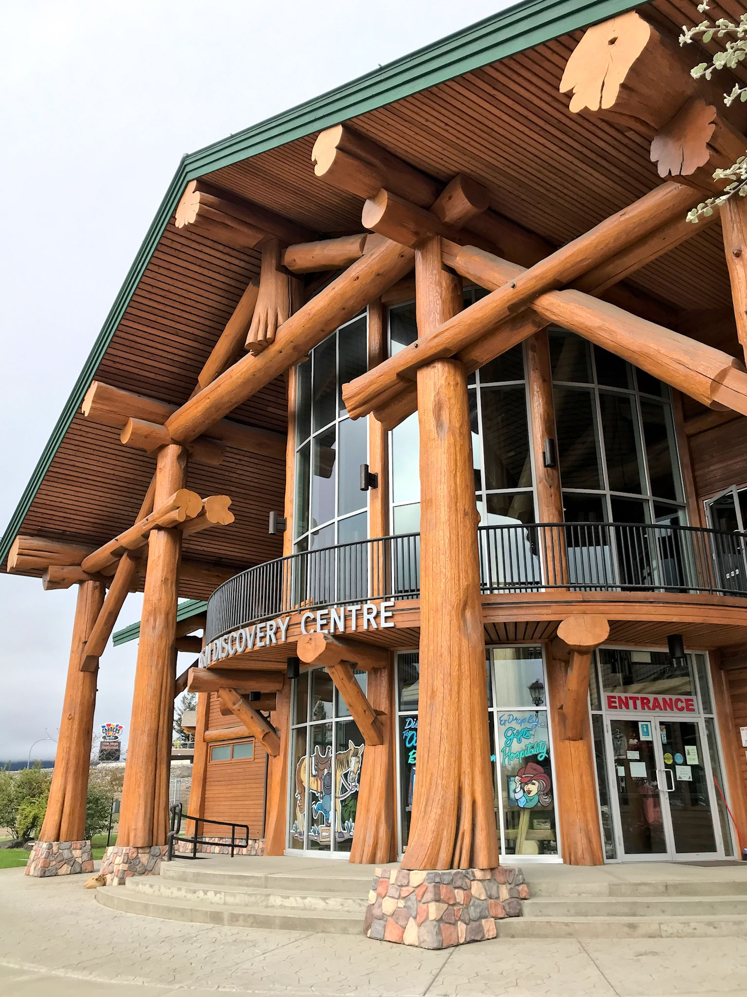 In a region famous for log home construction...